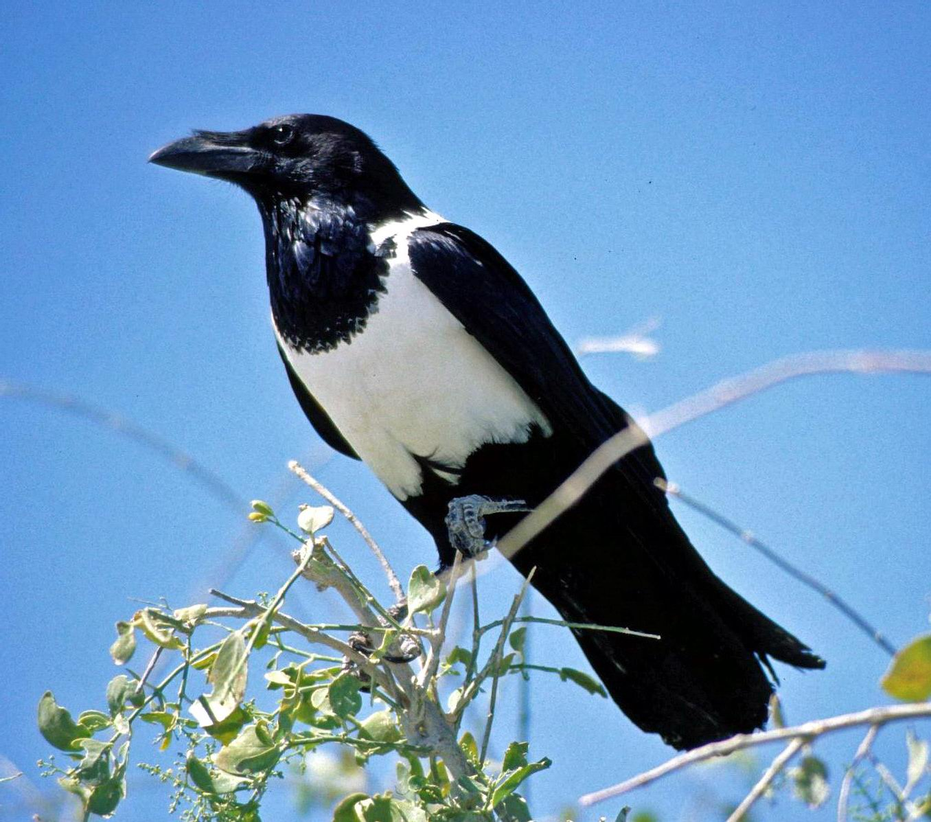 Pied Crow (Corvus albus), Etosha National Park, Namibia